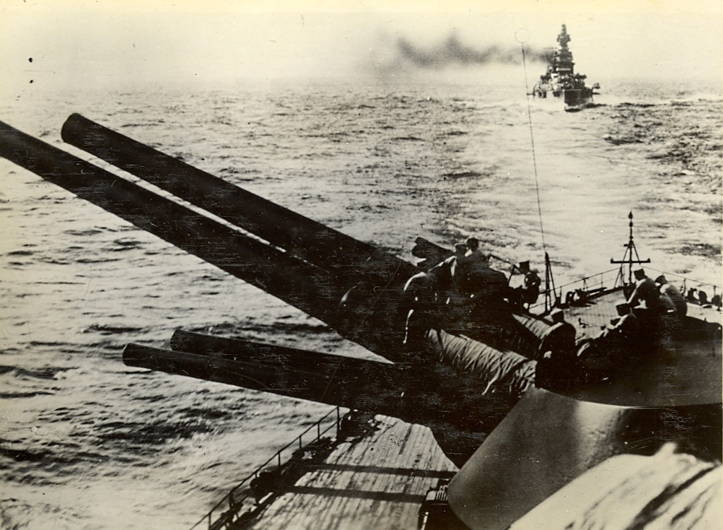 Crew members sit atop the turret of a Japanese battleship in line formation. The battleships are likely the Nagato and the Mutsu. The photos were found on Saipan in the Marianas and were placed in a scrapbook made by CDR William Balden, an naval aviator on board the Enterprise.